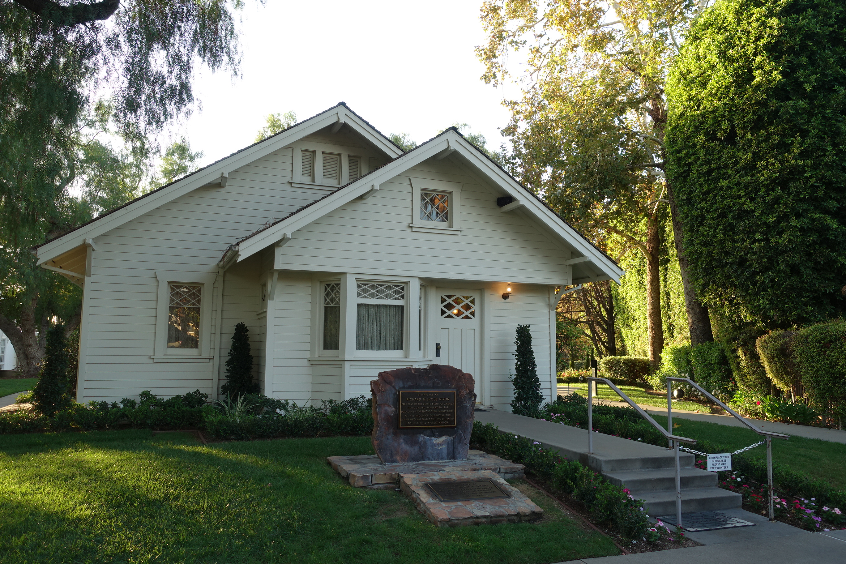 Richard Nixon Presidential Library and Museum, Yorba Linda, CA, USA.